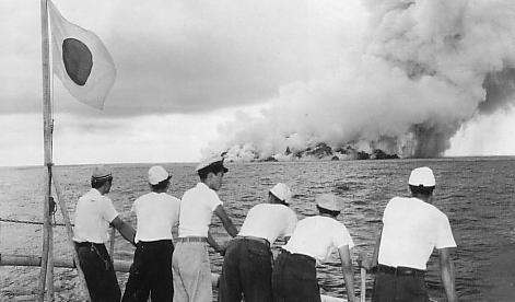 Eruption of Myojin-Sho submarine volcano from patrol vessel Shikine of the Maritime Safety Agency